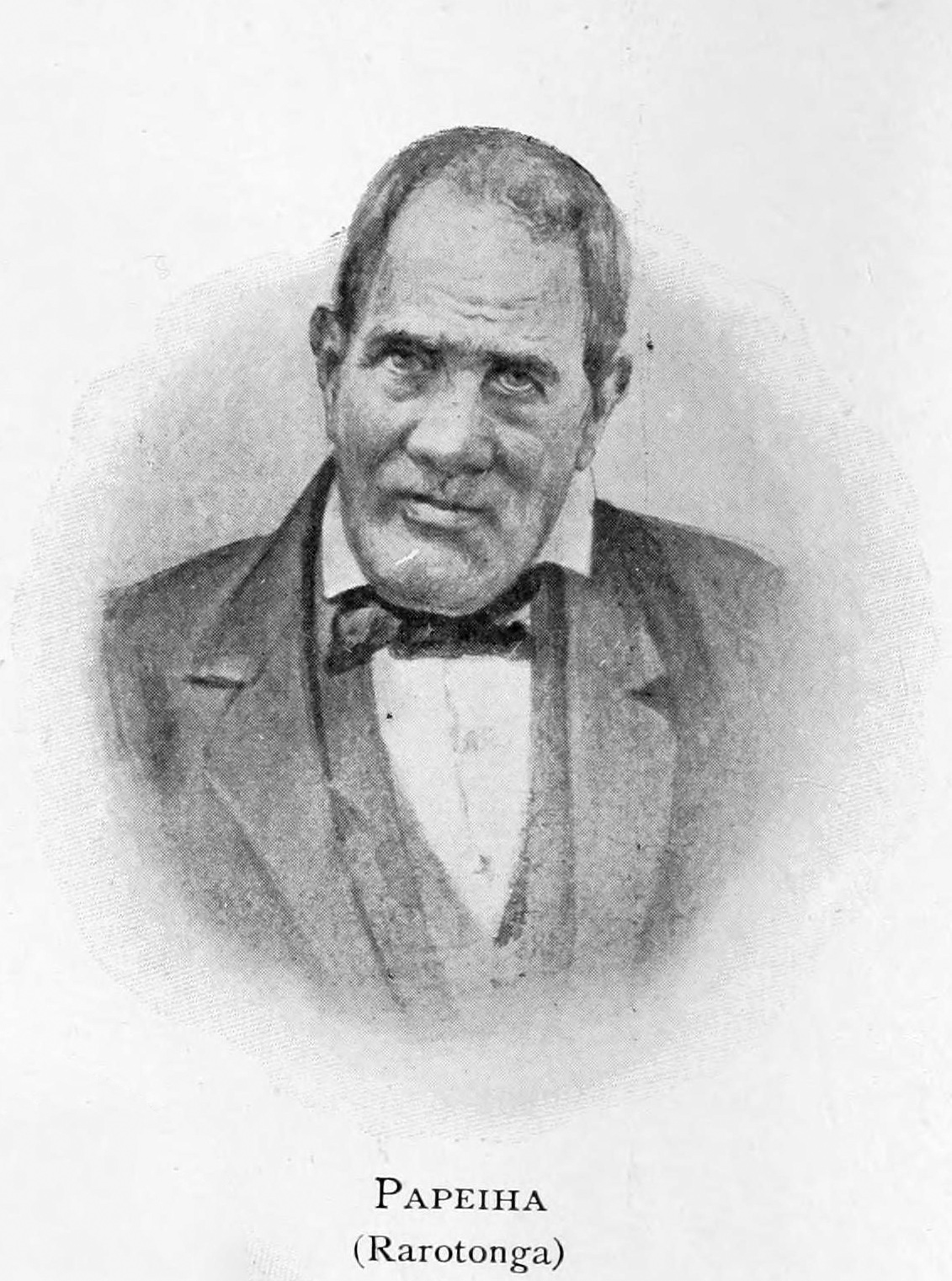 Papeiha, Tahitian missionary to Rarontonga.